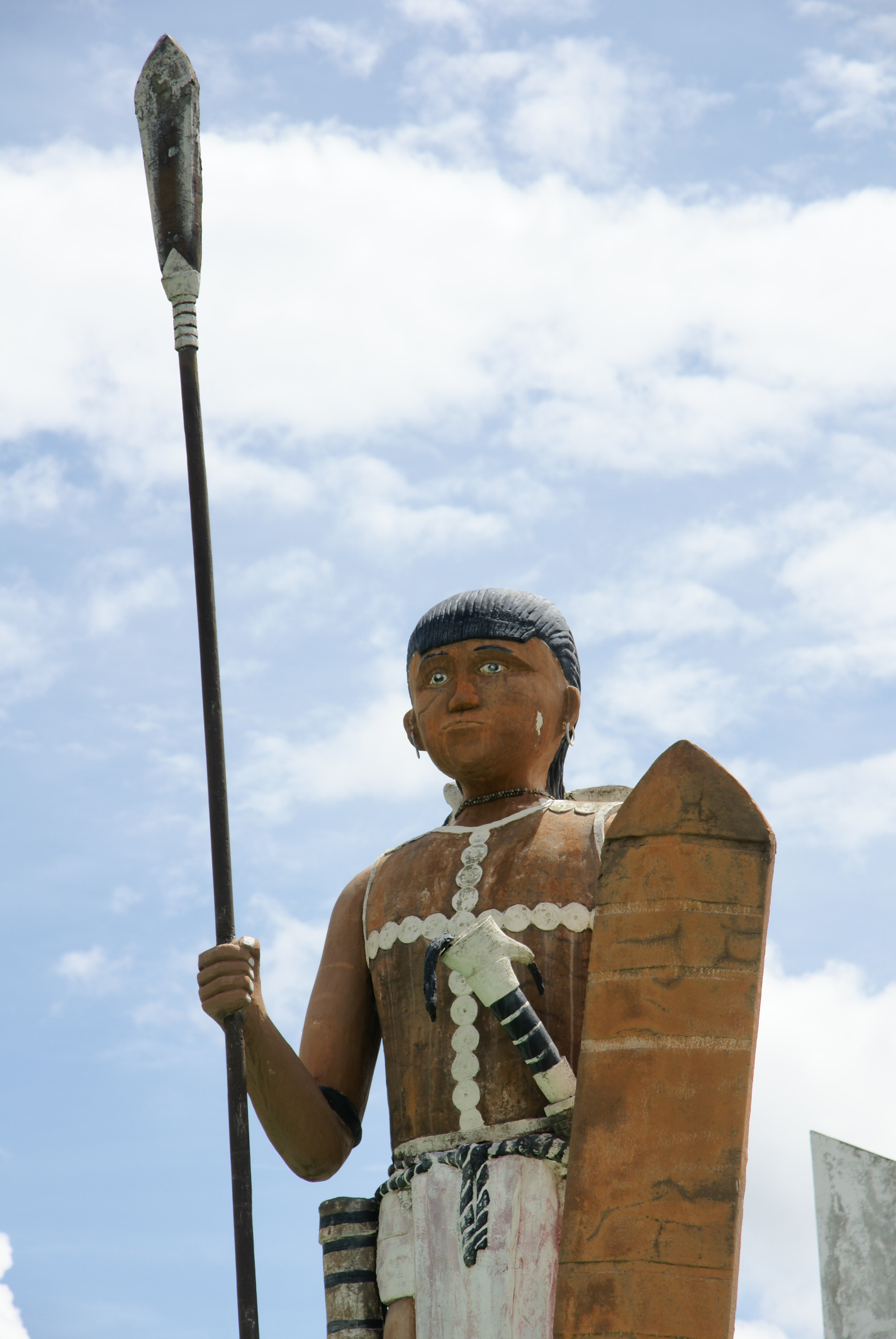 Statue of Ontoros Antanom in Tenom, Sabah, Malaysia. The outlook of Ontoros is fictional as there is neither a photo nor a sketch of the Murut warrior known